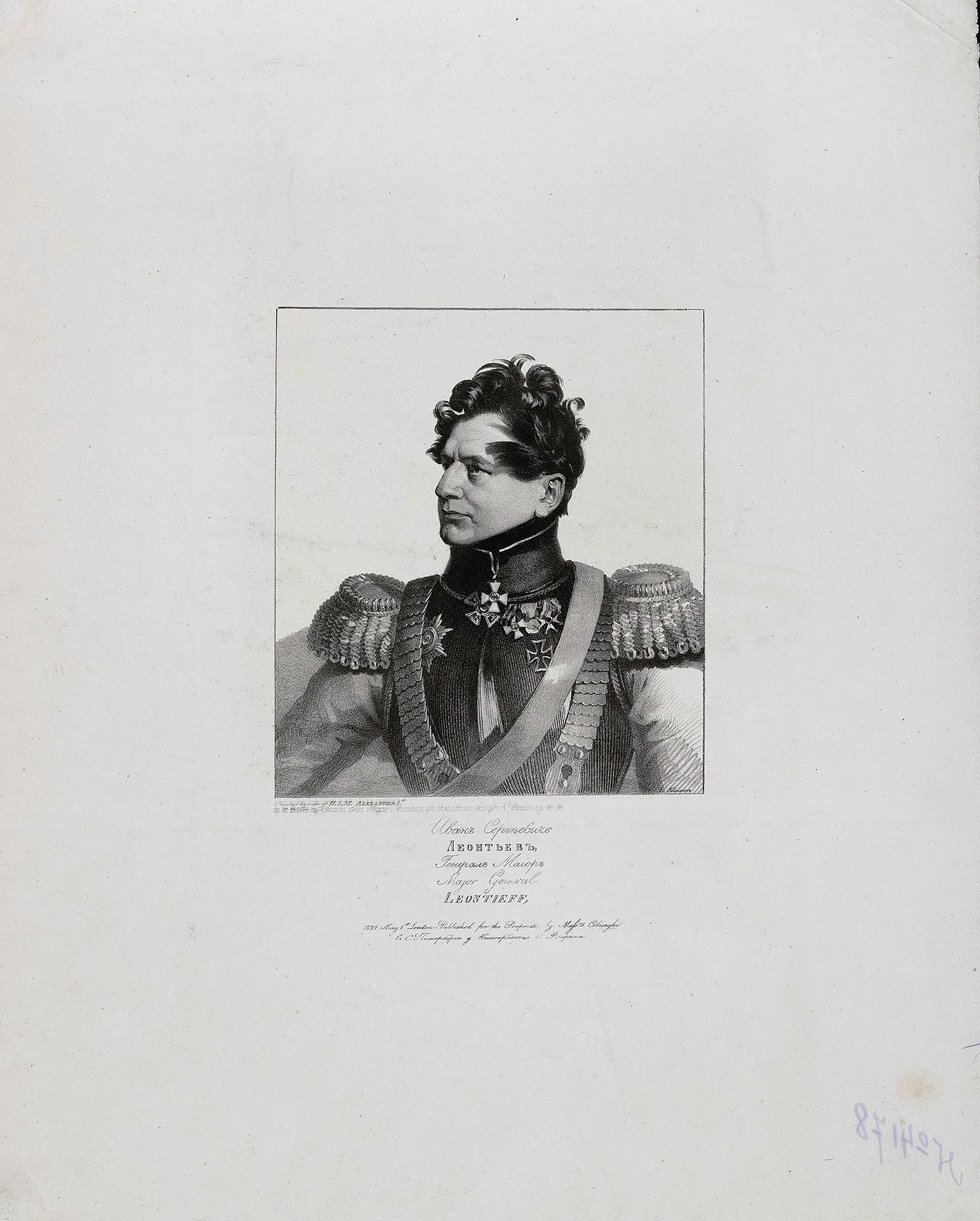 Leontyev, Ivan Sergeyevich (1782 – 10.08.1824) russian major general.